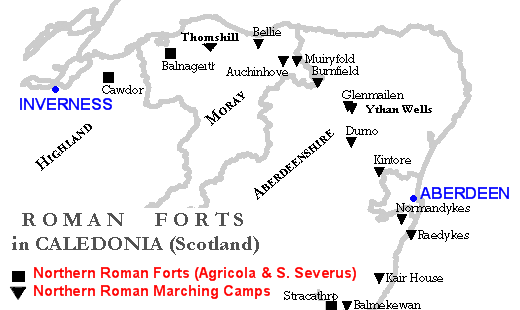 Map of Northern Caledonia (Scotland) showing Roman Forts and Marching Camps (little forts) during the Agricola Campaign (first century) and the Septimius Severus Campaign (third century). Map and data done with my own software.